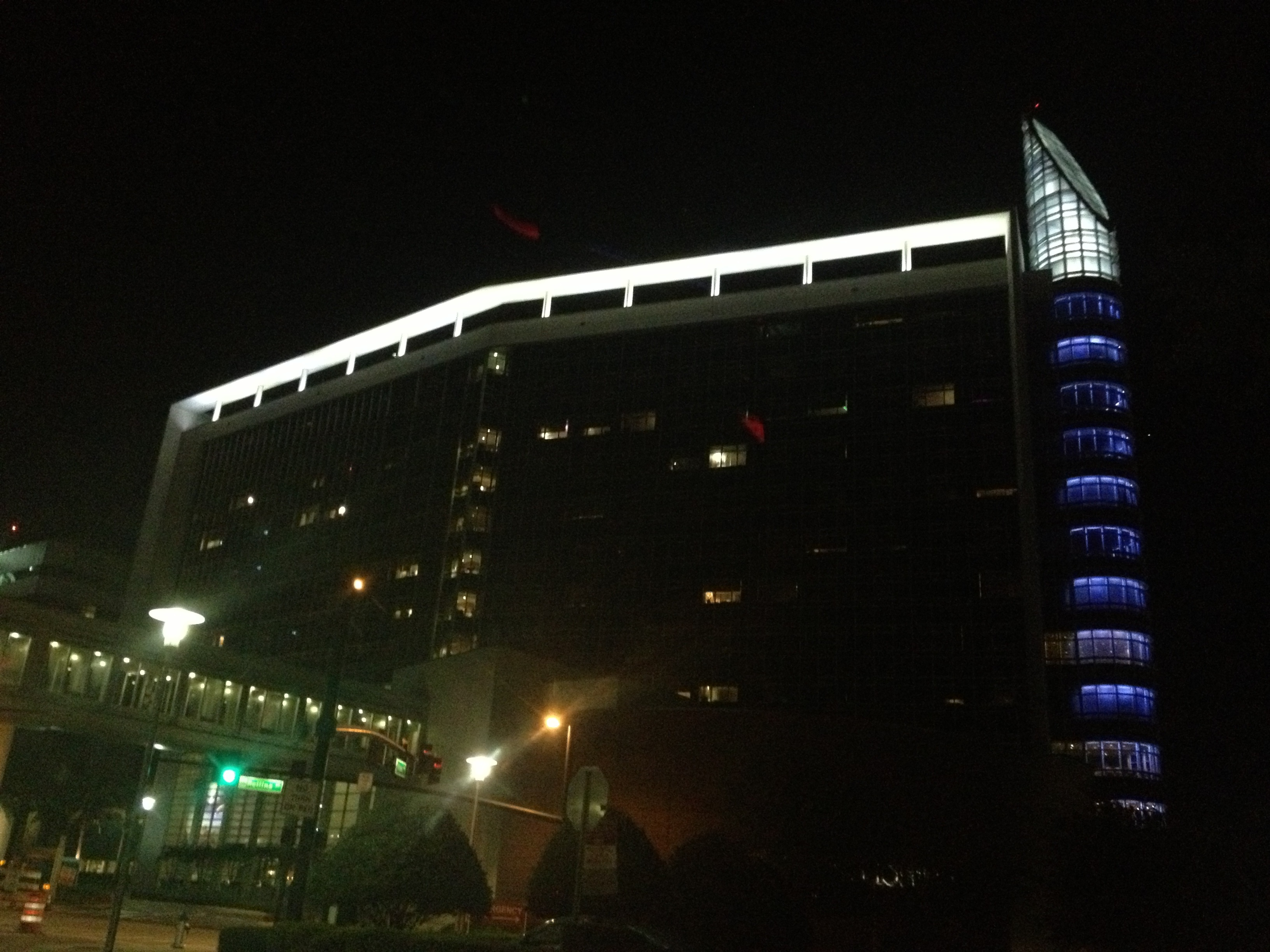 The main building at the AdventHealth Orlando campus. Nighttime photograph.